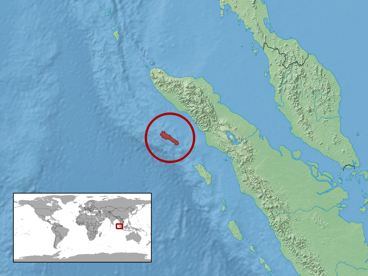 geographic distribution of Cnemaspis jacobsoni (Native: Indonesia)